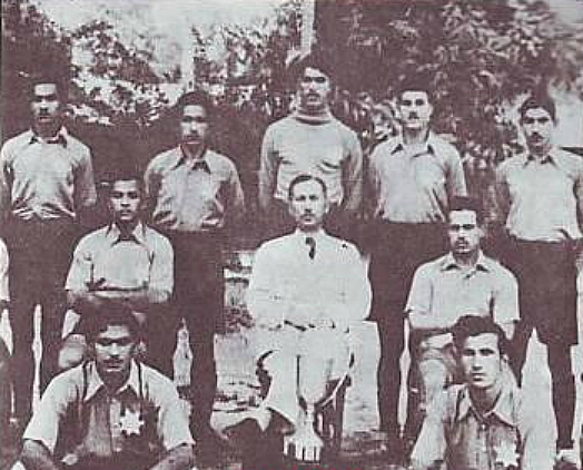 A photo of some players of Al Shorta SC with the Taha al-Hashimi Cup after they won it in 1939.